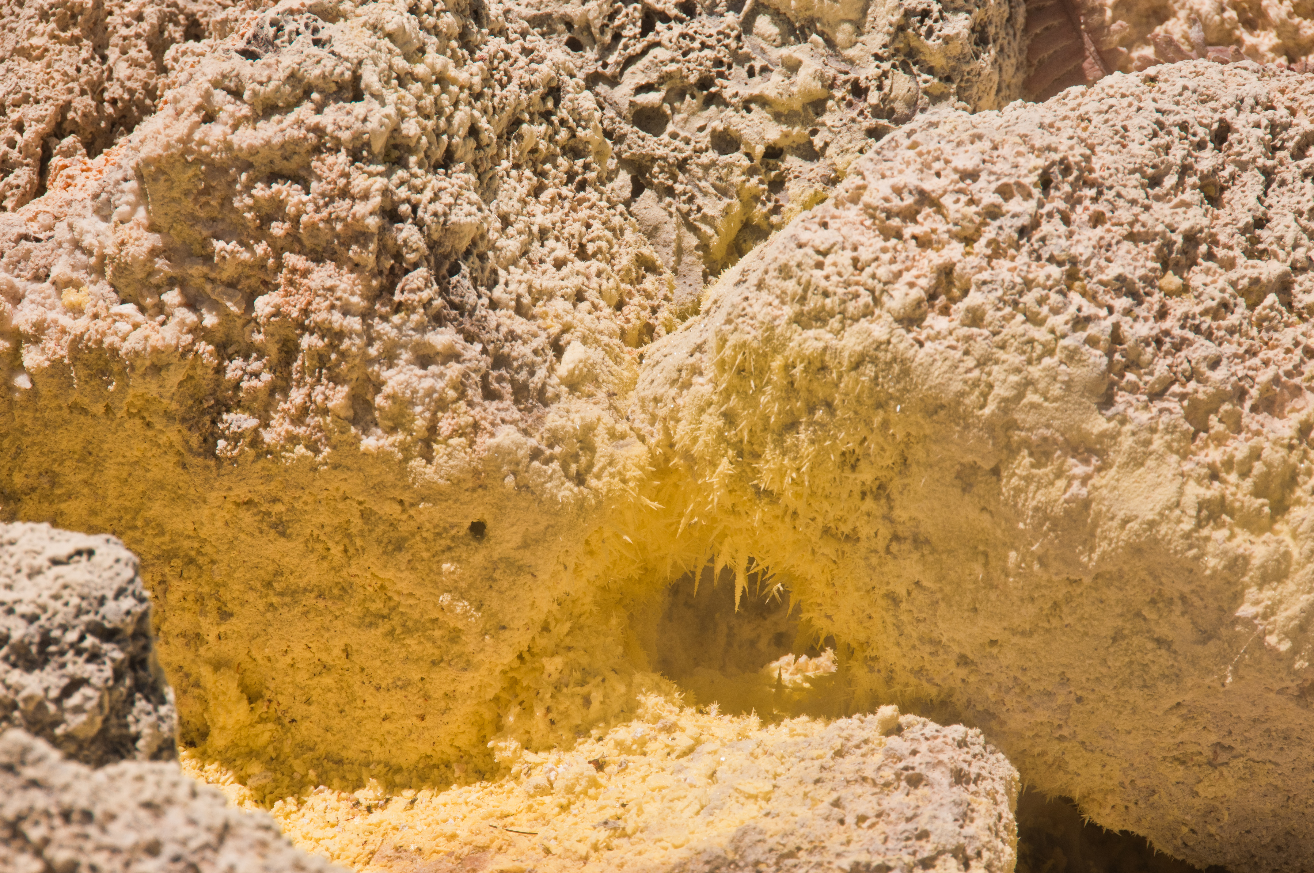 Sulfur Banks fumarole, Kilauea, Hawaii, Unites States